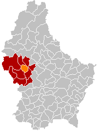 Own edit of Kanton RedangeLocatie.png